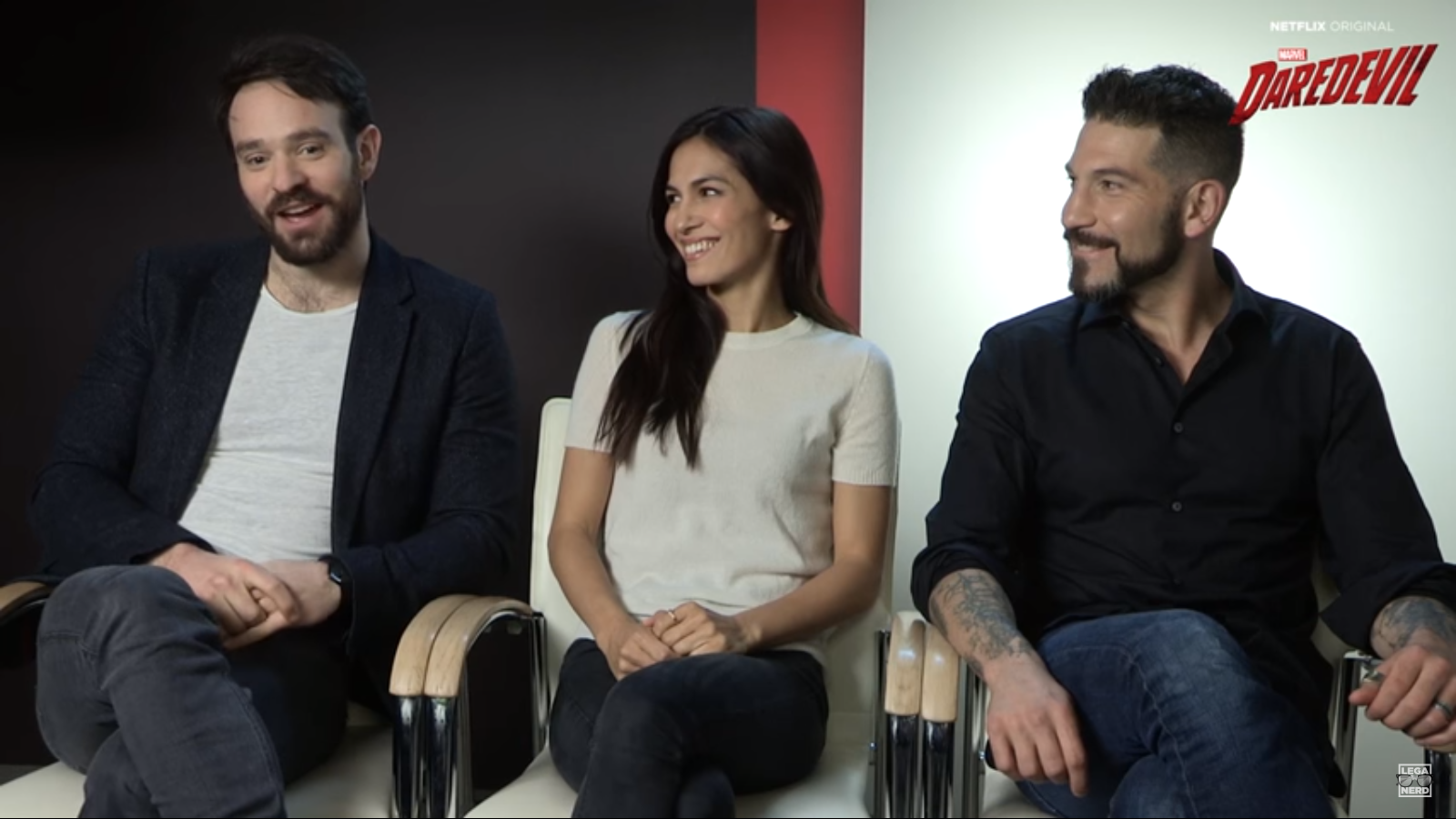 Charlie Cox, Elodie Yung and Jon Bernthal in interview in 2016